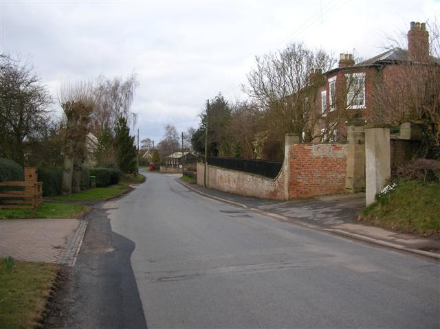 Holtby. North of Dunnington, South of Warthill, Holtby is a small village on the Eastern side of York.